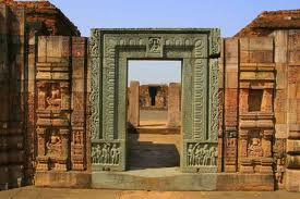 ratnagiri monastery gate